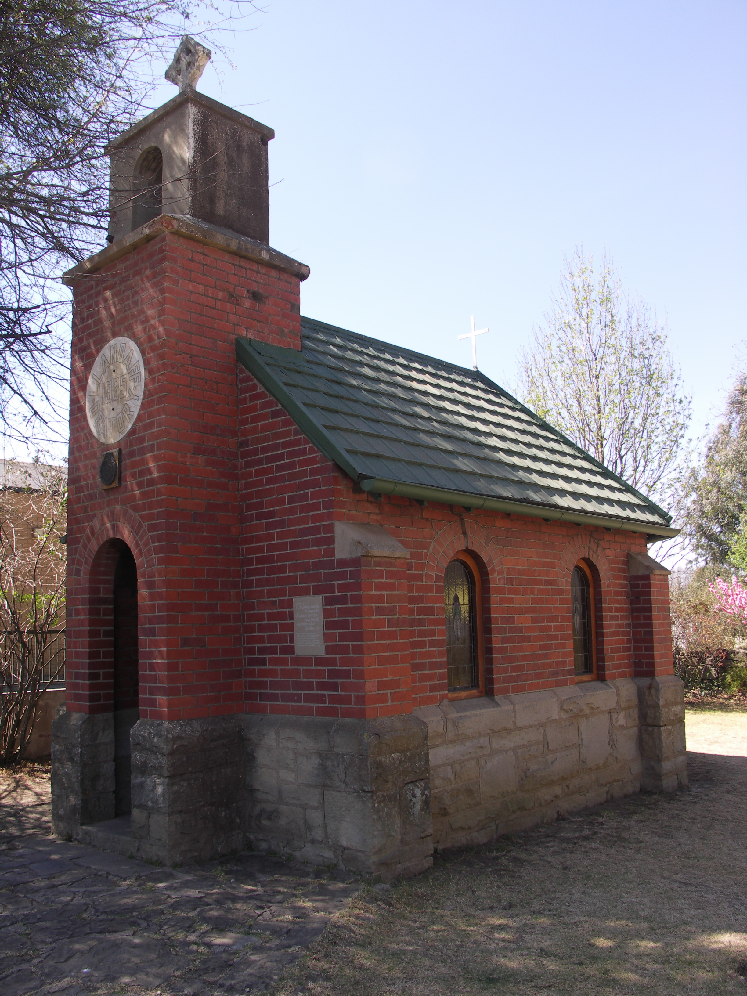 The Llandaff Oratory, a small church (declared national monument) seating only 8 people. Located in Van Reenen, KwaZulu-Natal, South Africa.